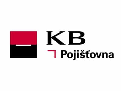 Oficiální logo společnosti Komerční pojišťovna.